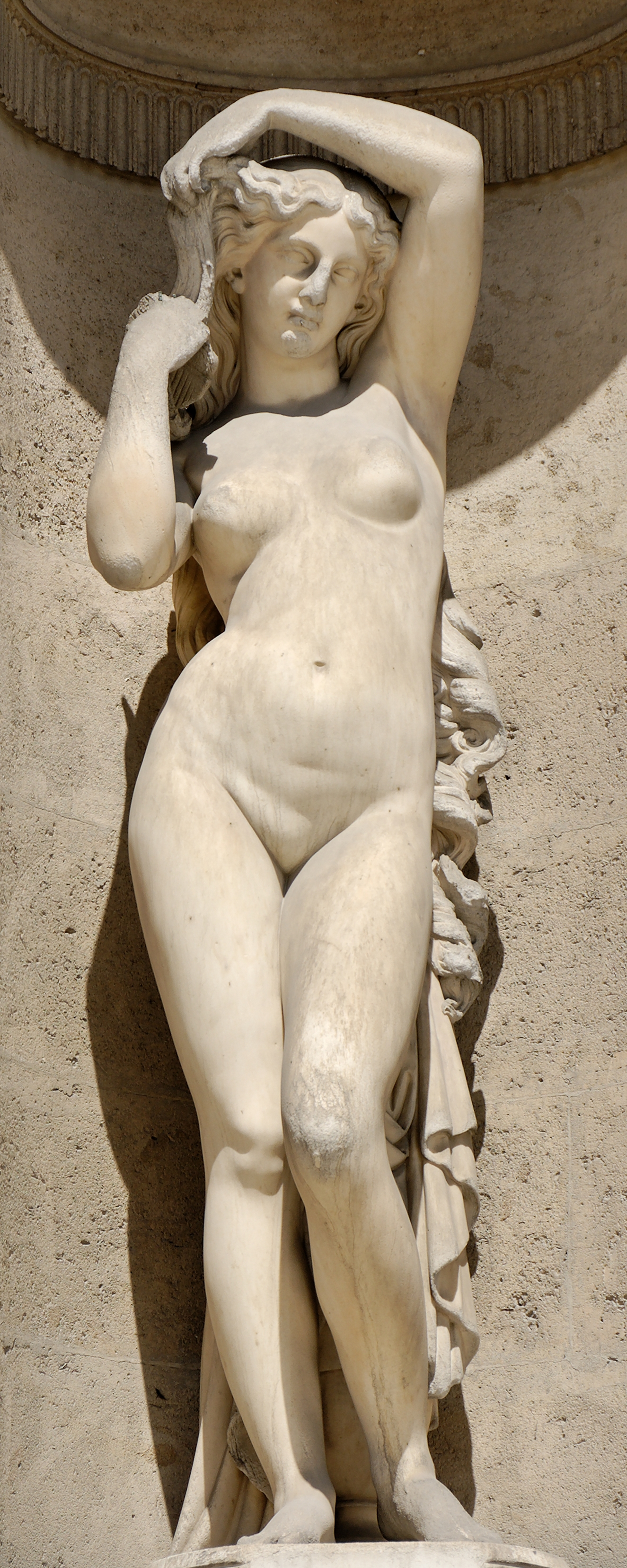 Bathsheba (1859), by Eugène Oudiné (1810-1887). North façade of the Cour Carrée in the Louvre palace, Paris.